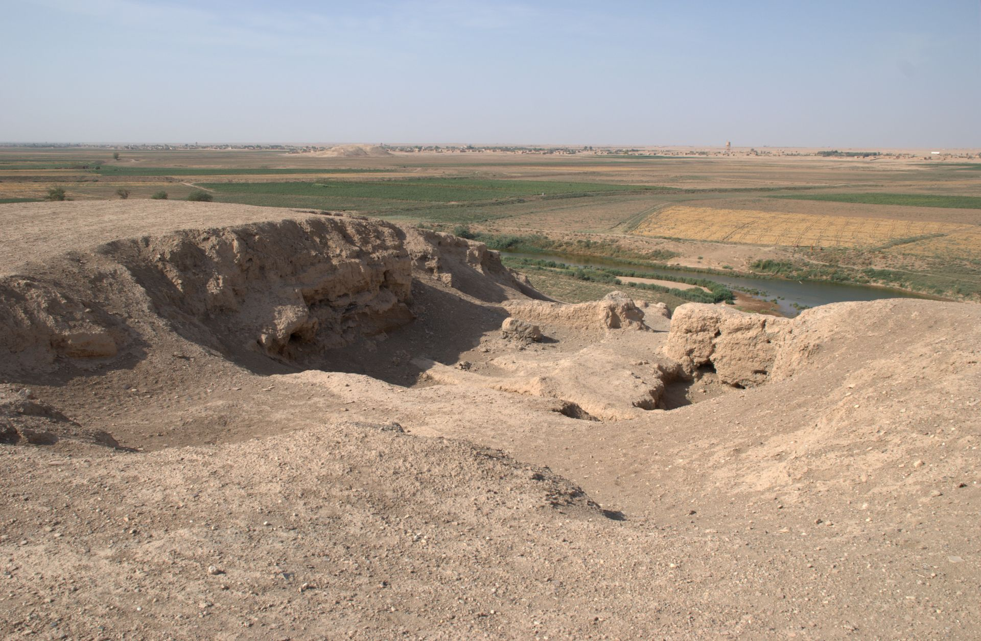 Tell Schech Hamad, Syria, Dur Katlimmu, citadel